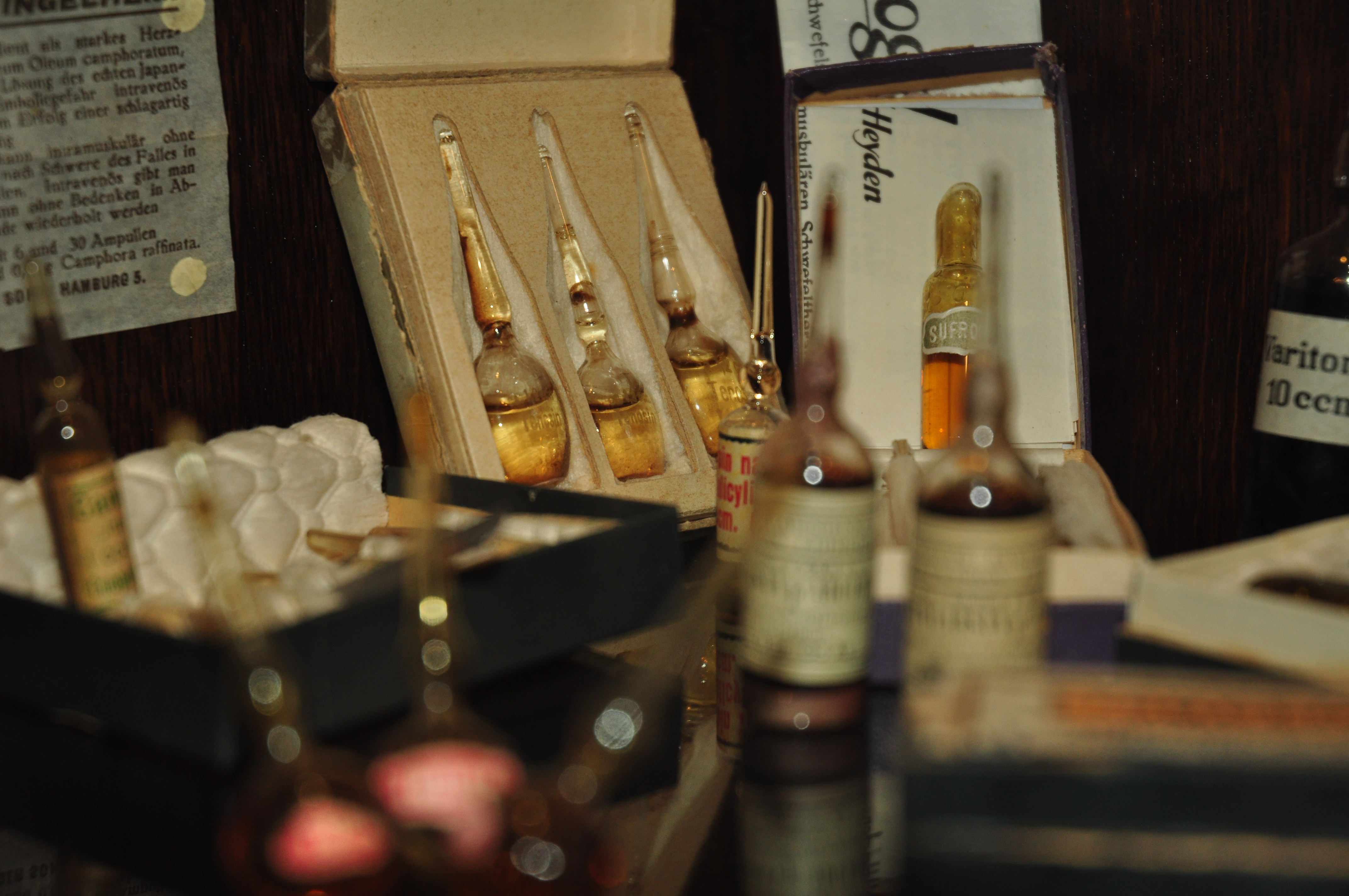 Display case in Raeapteek